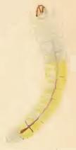 Stainton’s Natural History of the Tineina (1855–1873): Phyllonorycter salicicolella larva